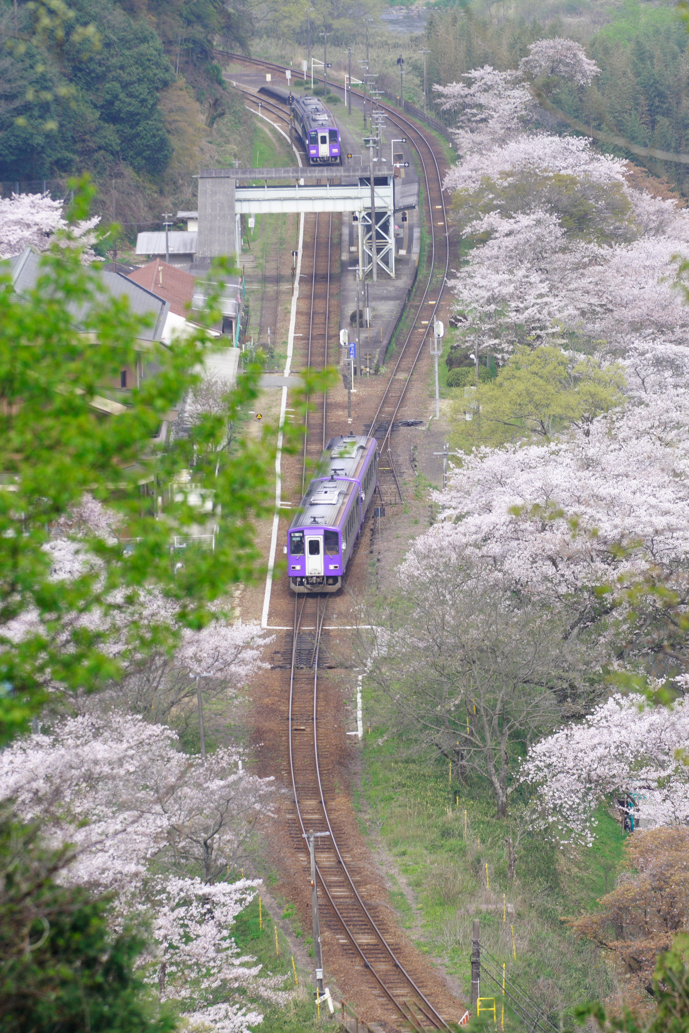 JR西日本・笠置駅/Kasagi Station is a station of Kansai line of West Japan Railway Company